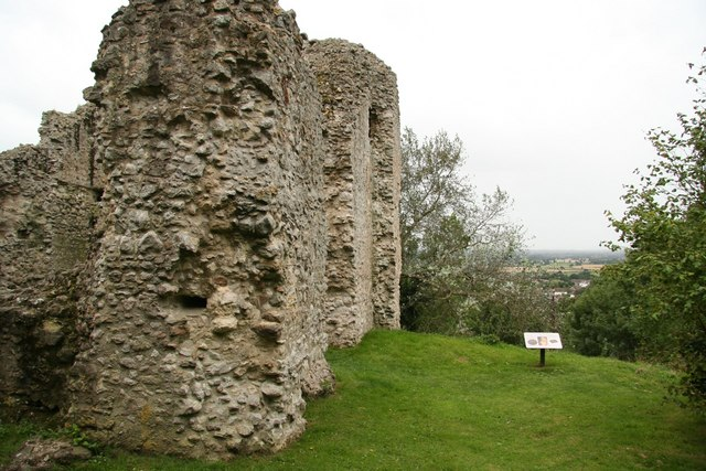 Sutton Valence Castle The remains of the keep of Sutton Valence Castle with spectacular views across the Weald, built in the mid-12th century by Baldwin de Bethune, Count of Aumale